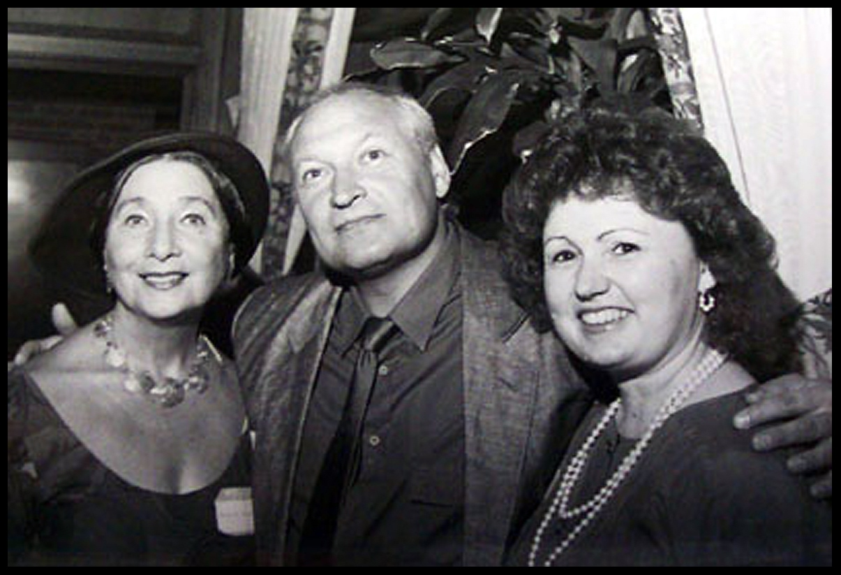 Peggy Willis Aarnio with Valerie Panov and Natalia Krassovska, 1988